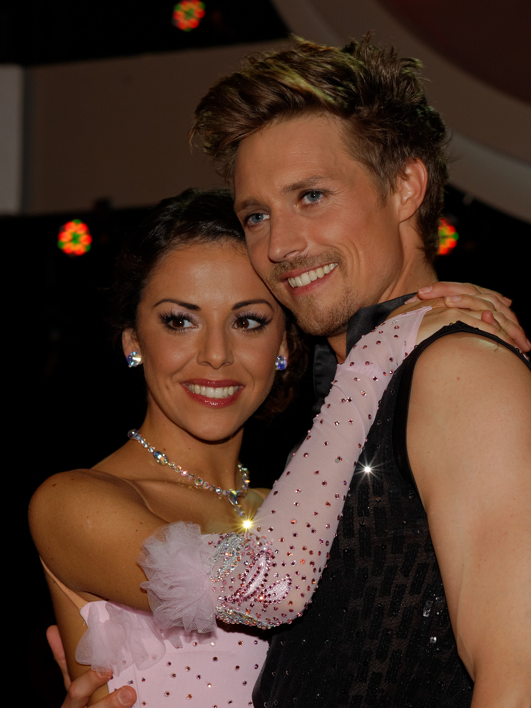 "Dancing Stars" am 5. April 2013 The making of this document was supported by Wikimedia Austria. Marjan Shaki und Lukas Perman